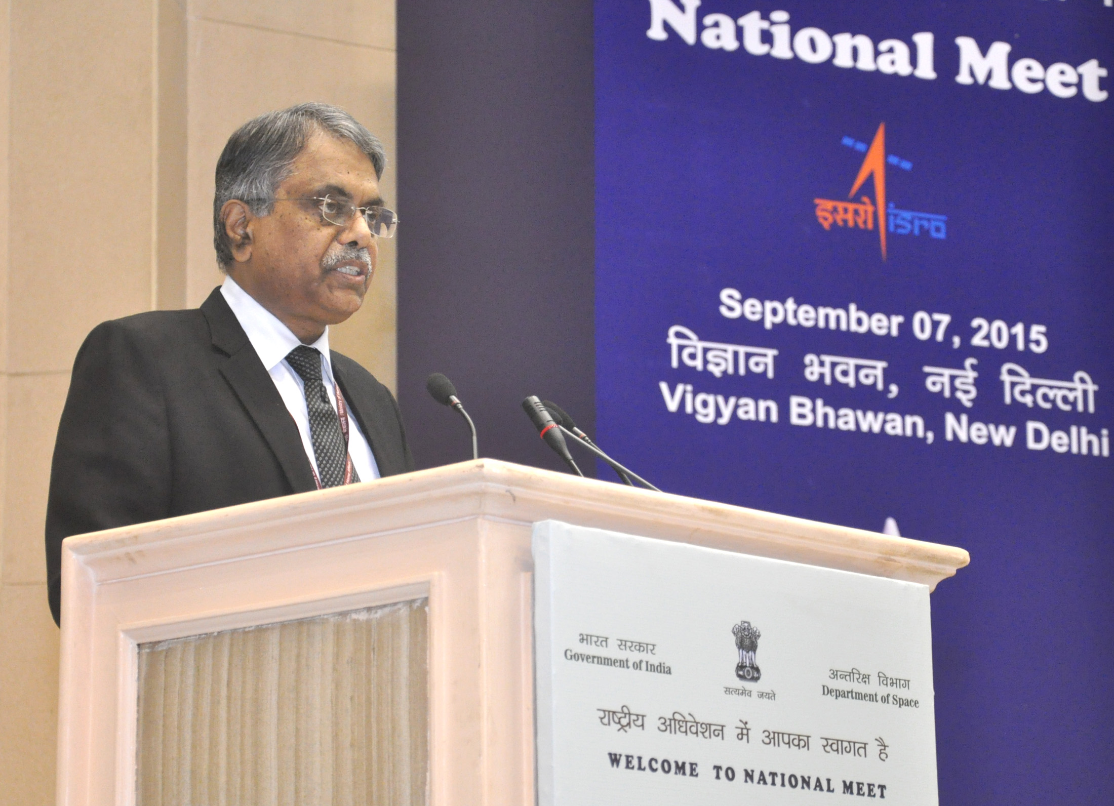 The Cabinet Secretary, Shri Pradeep Kumar Sinha addressing at the inauguration of the National Meet on Promoting Space Technology based Tools and Applications in Governance and Development, in New Delhi on September 07, 2015.